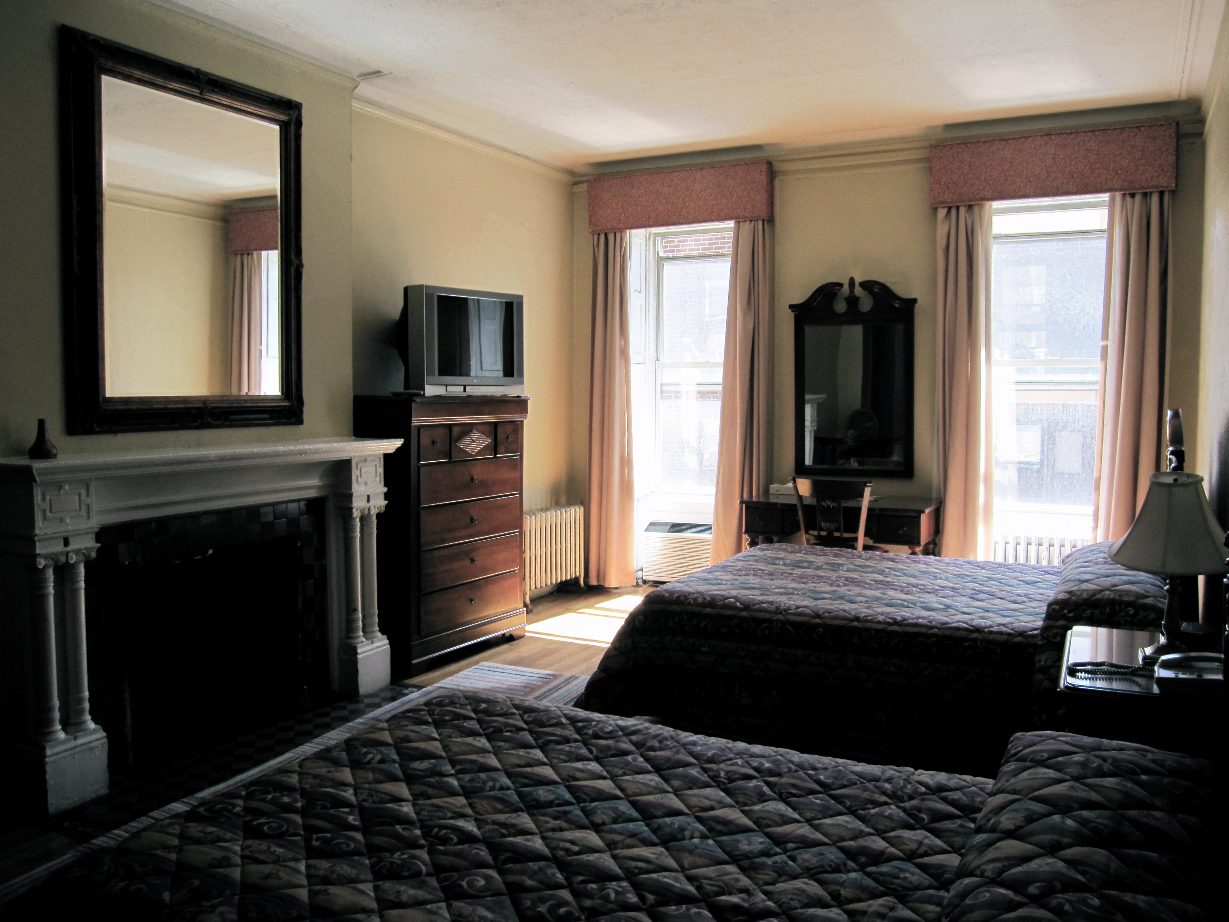 A standard room for rent in the Chelsea Hotel.